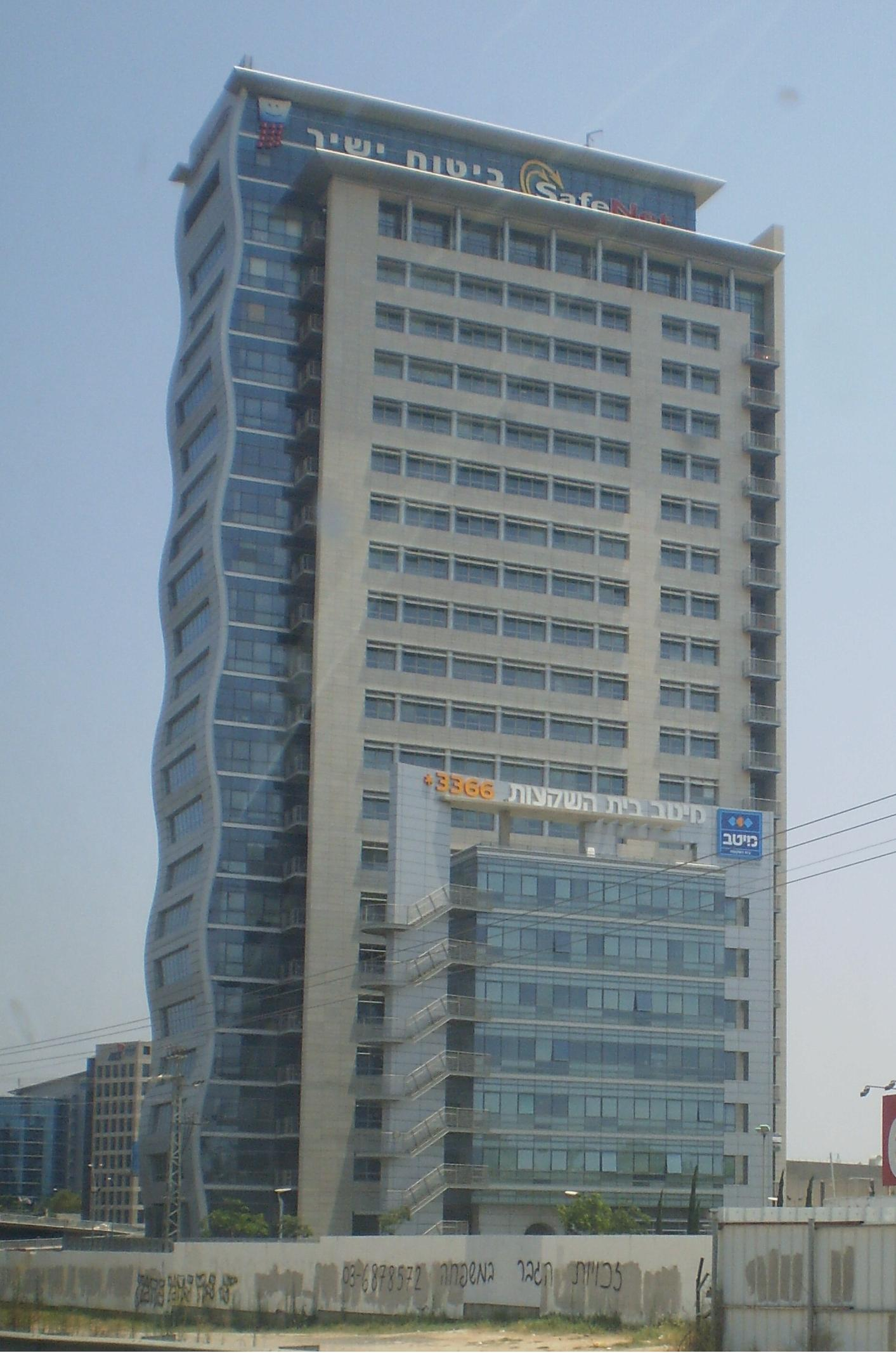 Main office of I.D.I. Insurance Company Ltd